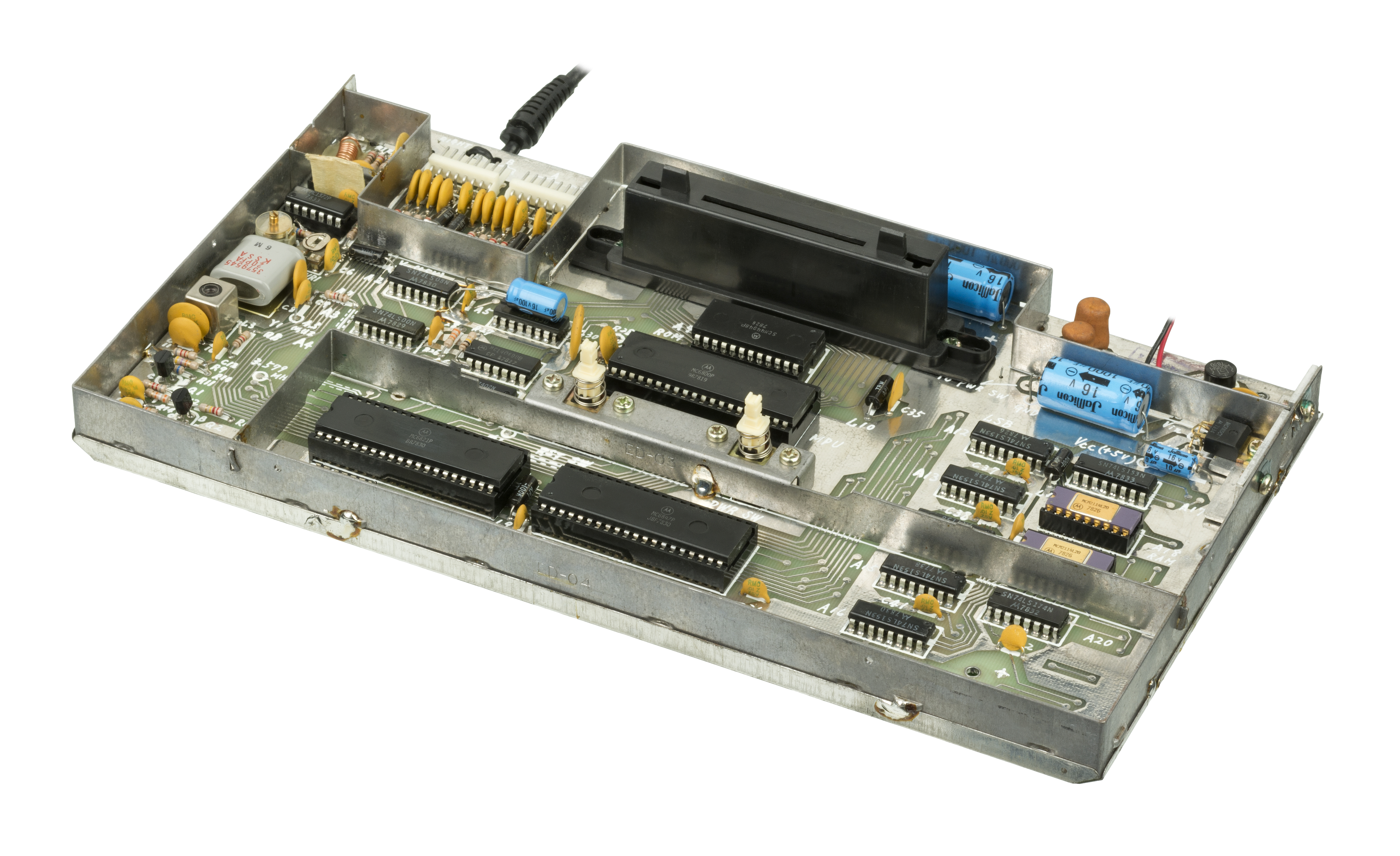 The motherboard of the APF M1000 (some are also labeled the MP1000), a video game console released by APF Electronics in 1978. A follow up to APF's line of Pong consoles, the MP1000 was a true microprocessor-based system that was powered by a Motorola 6800. The system wasn't commercially successful, releasing alongside a glut of other consoles, and APF Electronics filed for bankruptcy a few years later.